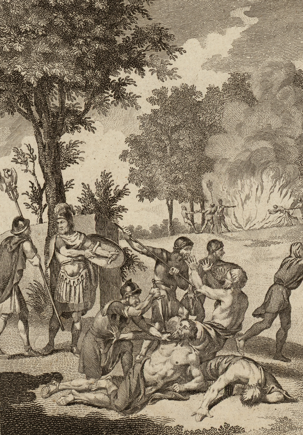 An image from a set of 8 extra-illustrated volumes of A tour in Wales by Thomas Pennant (1726-1798) that chronicle the three journeys he made through Wales between 1773 and 1776. These volumes are unique because they were compiled for Pennant's own library at Downing. This edition was produced in 1781. The volumes include a number of original drawings by Moses Griffiths, Ingleby and other well known artists of the period. Thomas Pennant (1726-1798)